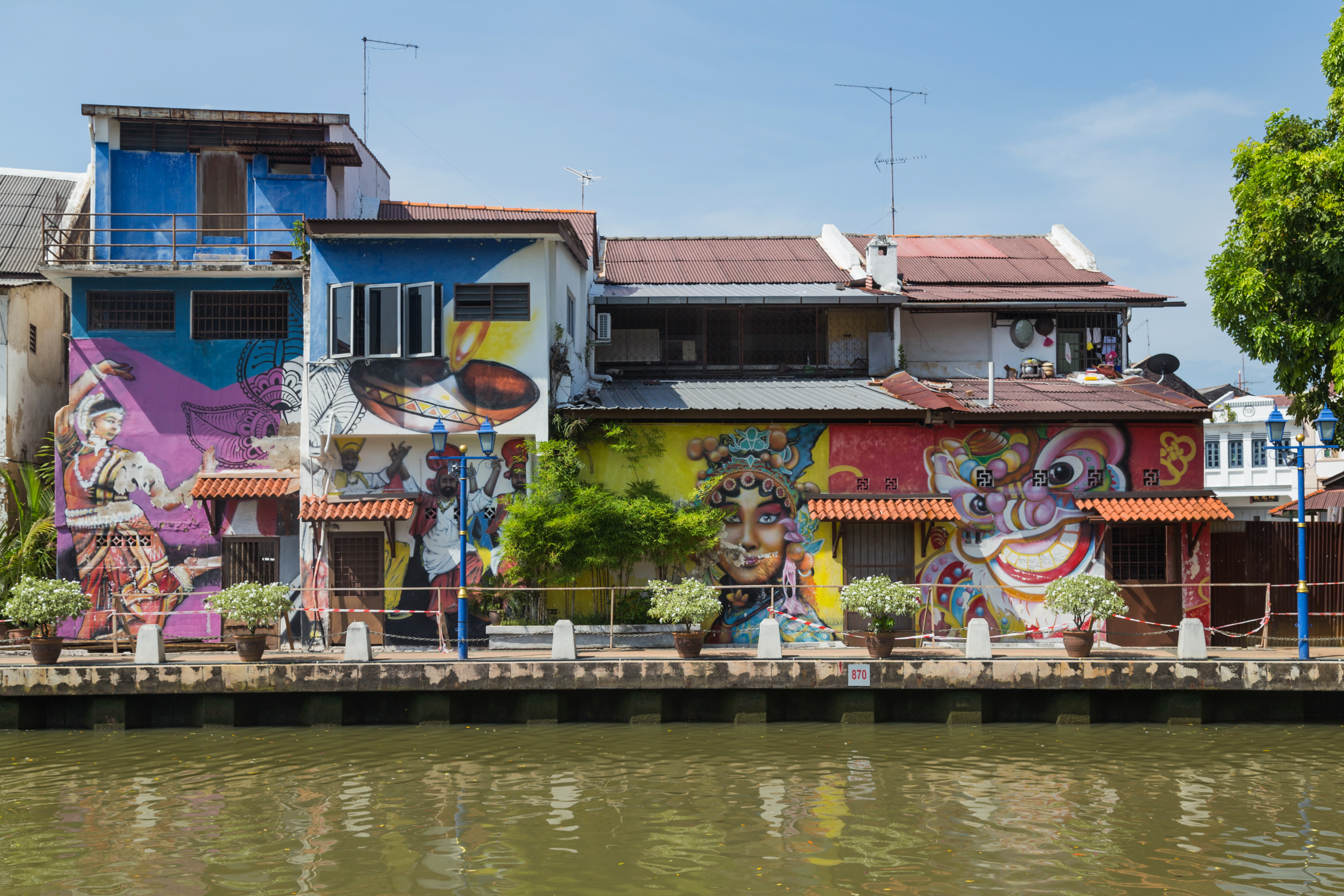 Buildings on the Malacca River. Malacca City, Malacca, Malaysia.